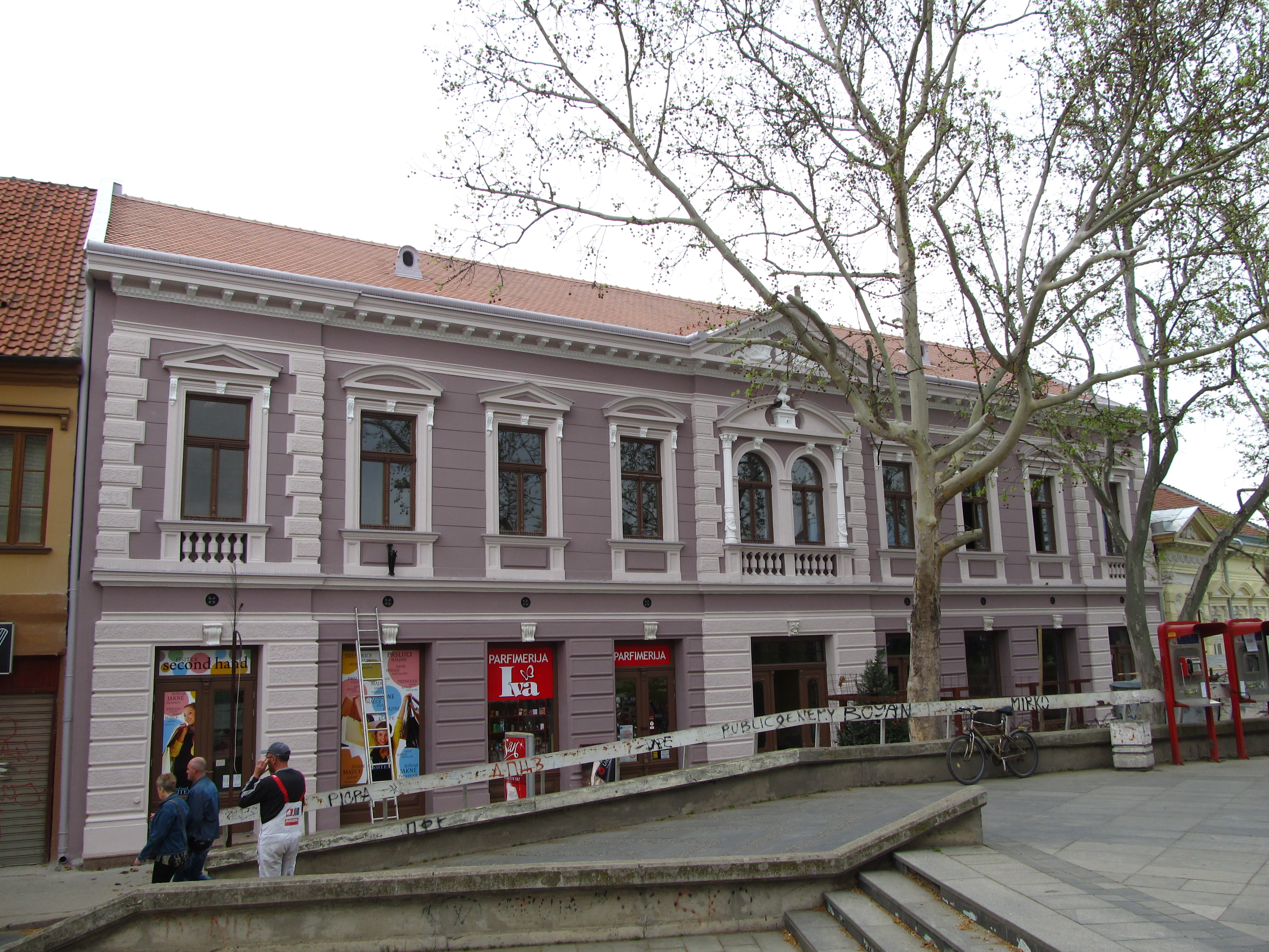 Veliki Bečkerek Savings Bank building in Zrenjanin